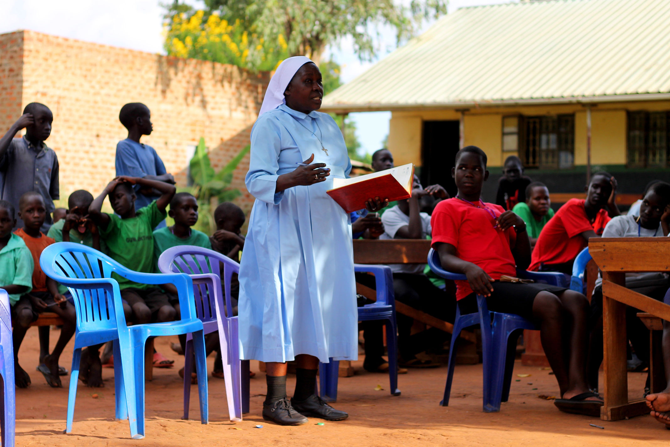 This is an image of "African people at work" from Uganda